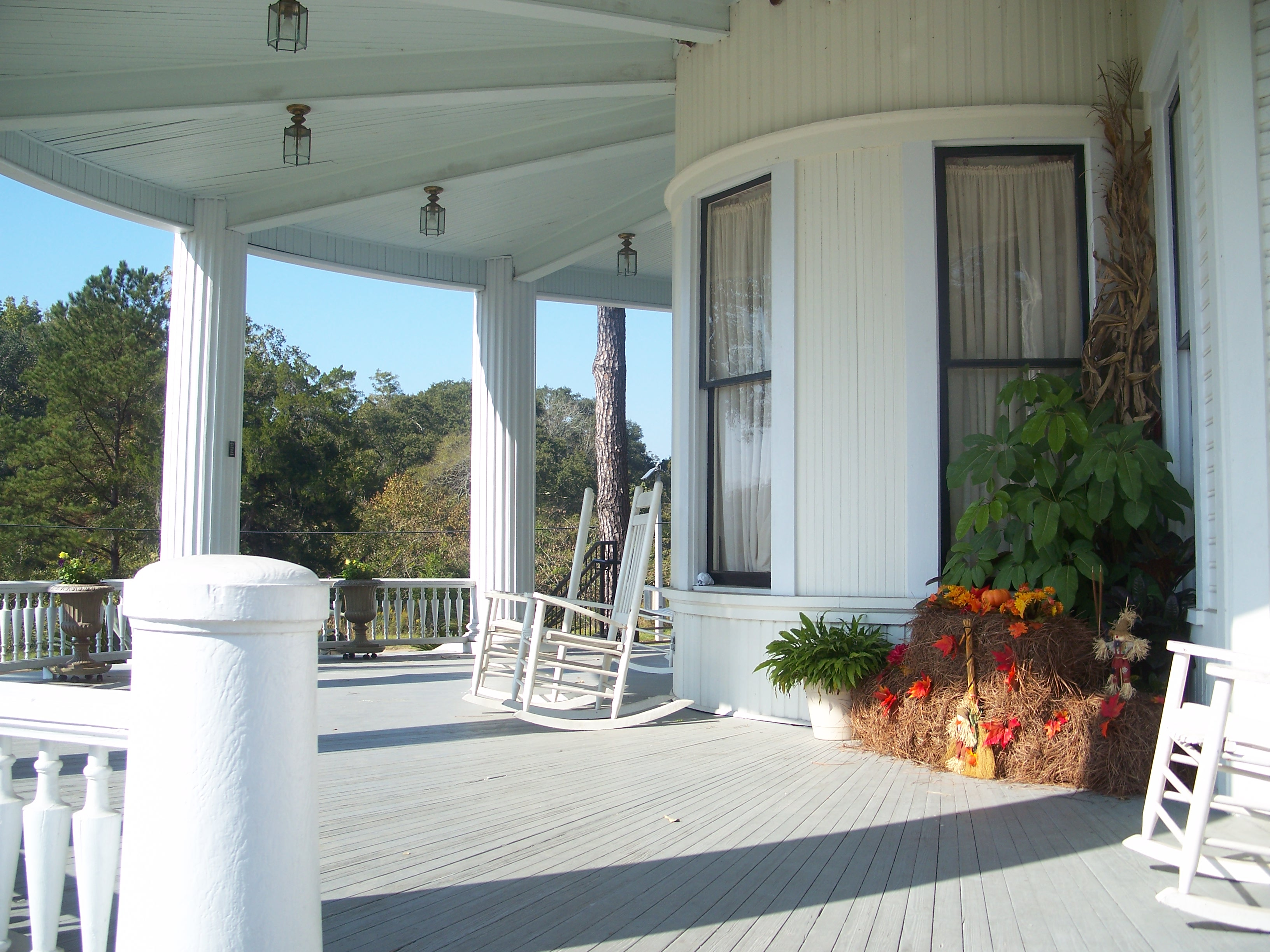 Looking roughly south across the front porch of the Joseph W. Russ, Jr. House, headquarters for the Jackson County Chamber of Commerce, in Marianna, Florida